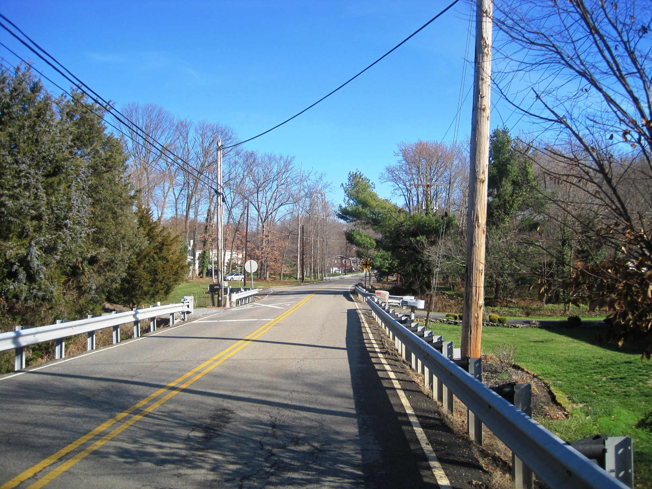 Photo of Hoffman, New Jersey, an unincorporated community within Monroe Township, Middlesex County. Photo taken along eastbound Hoffman Station Road (County Route 614) approaching Dancer Court.